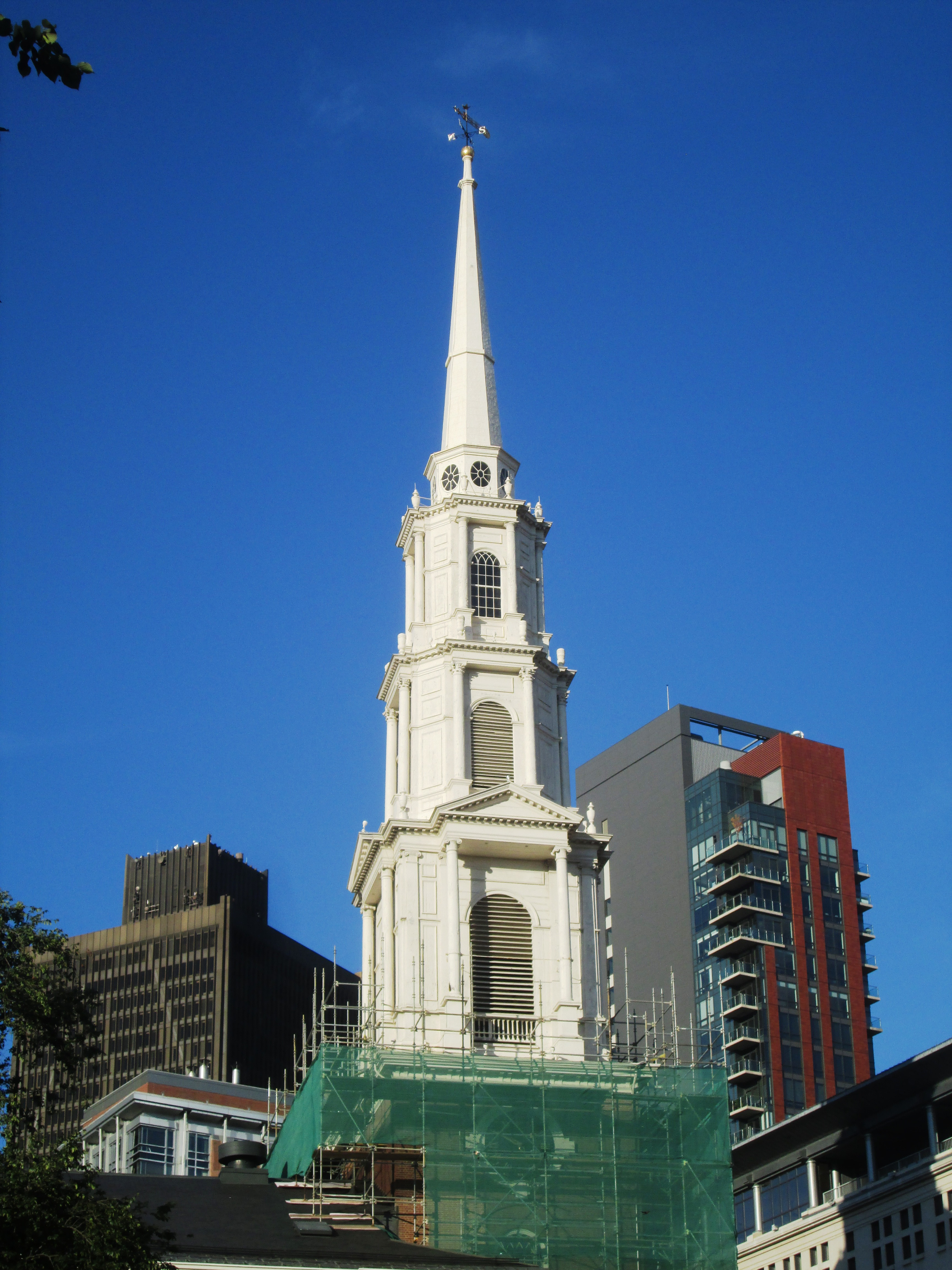 The steeple of the Park Street Church from Boston Common. The Park Street Church, located at 1 Park Street at the corner of Tremont Street in Boston, Massachusetts, is an Evangelical Congregational church that was built in 1809, and was designed by Peter Banner. It is a designated stop on the Freedom Trail.